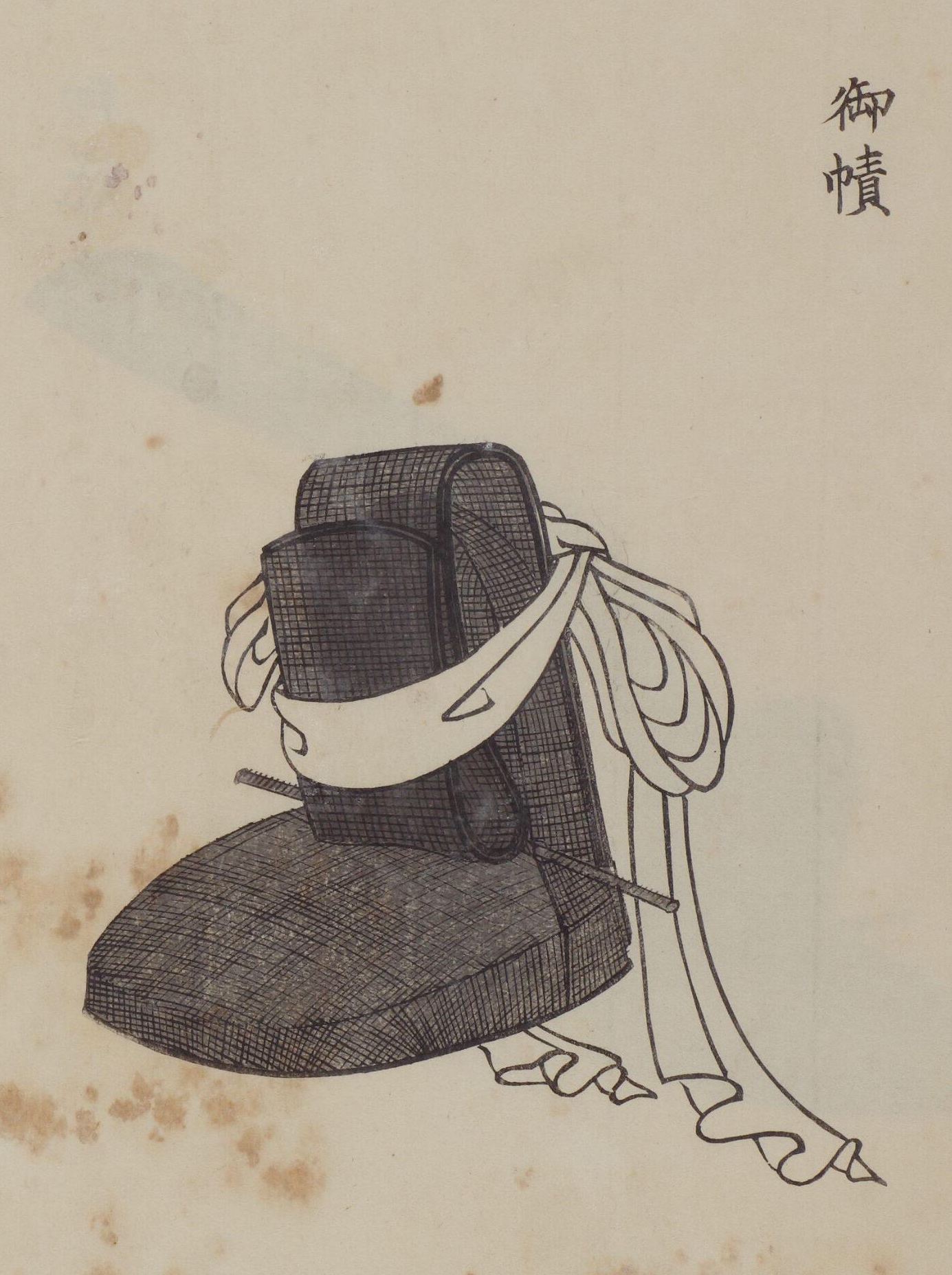 This is a crown called "Osaku no Kanmuri". Only the Emperor of Japan can wear this crown at Daijōsai.